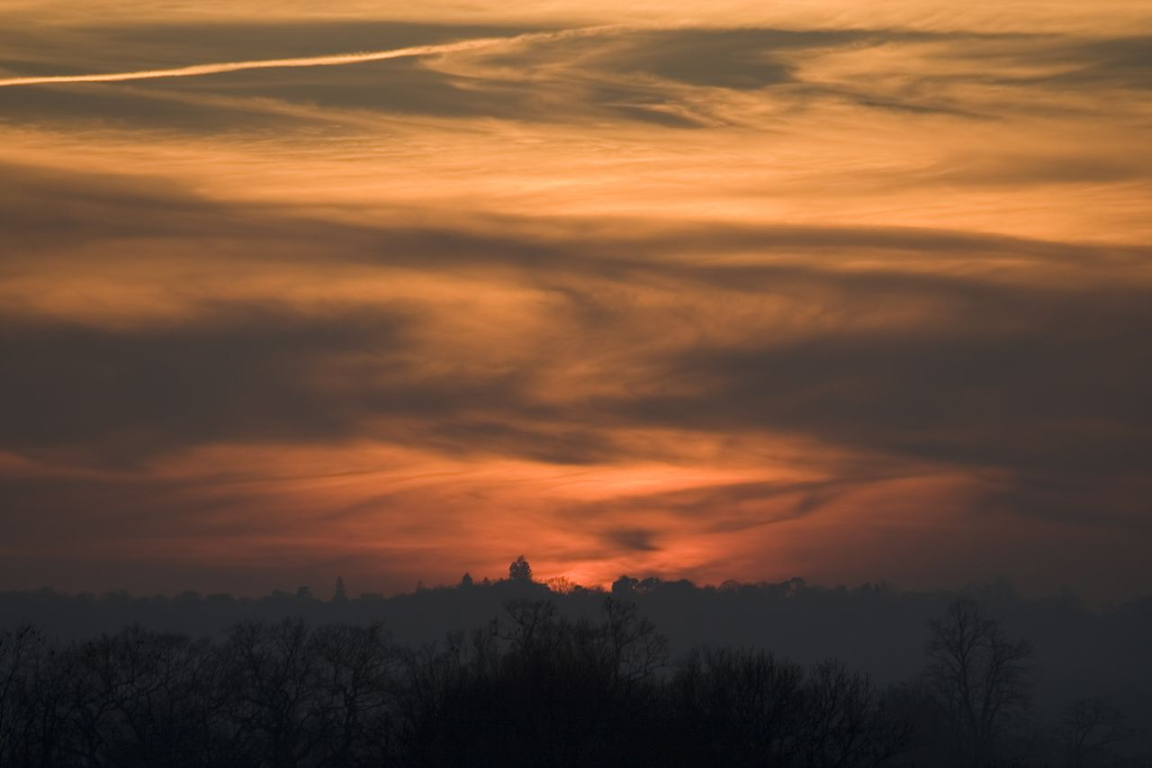 Sunset Raw To JPEG, Un-postprocessed. No painting, saturation, hdr, or changing in any way whatsoever.